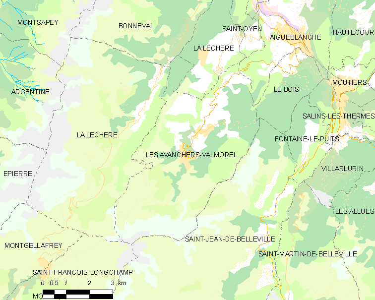 Map of French municipality